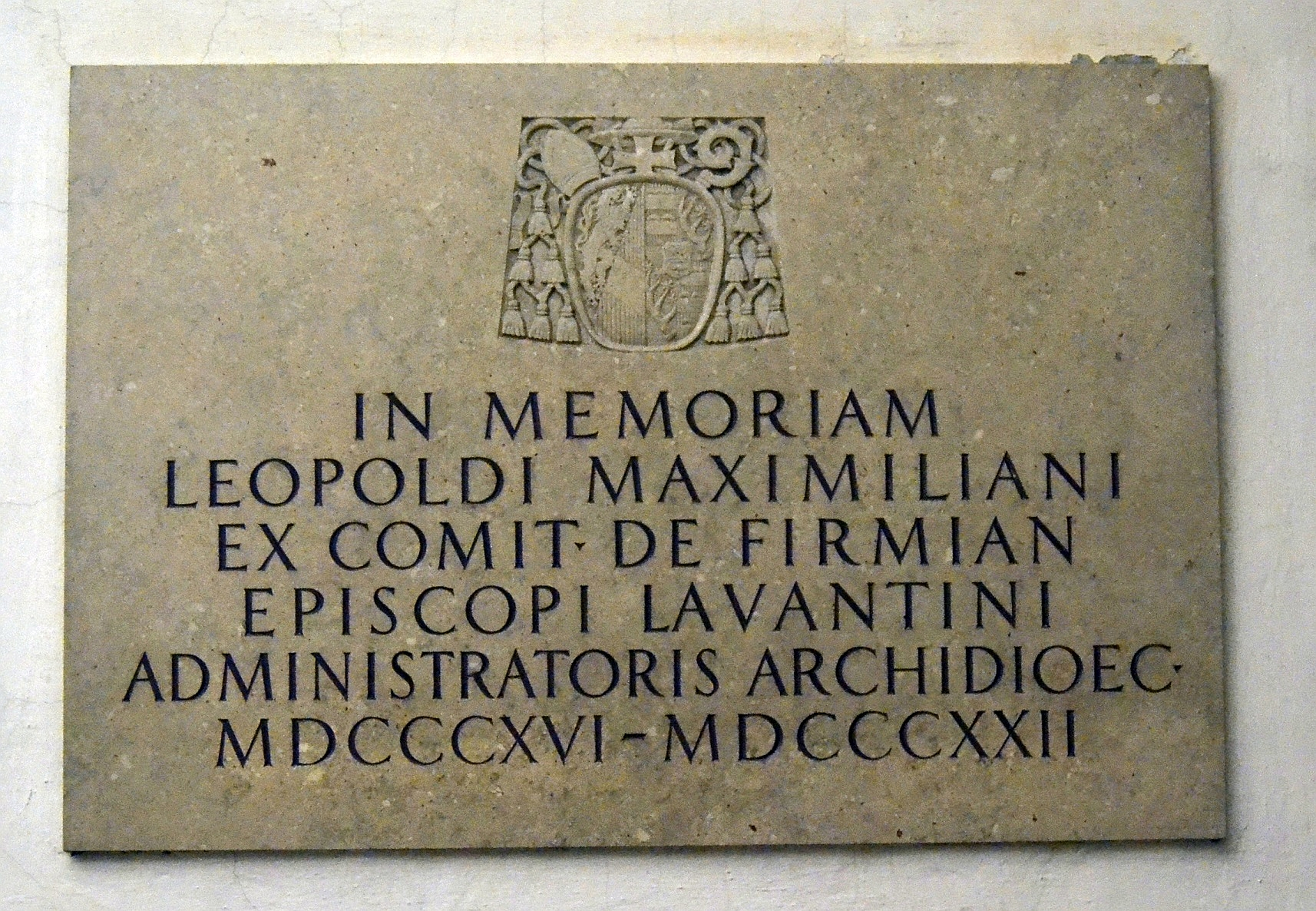 Salzburg Cathedral crypt, room 5: memorial tablet to Archbishop Leopold Maximilian von Firmian